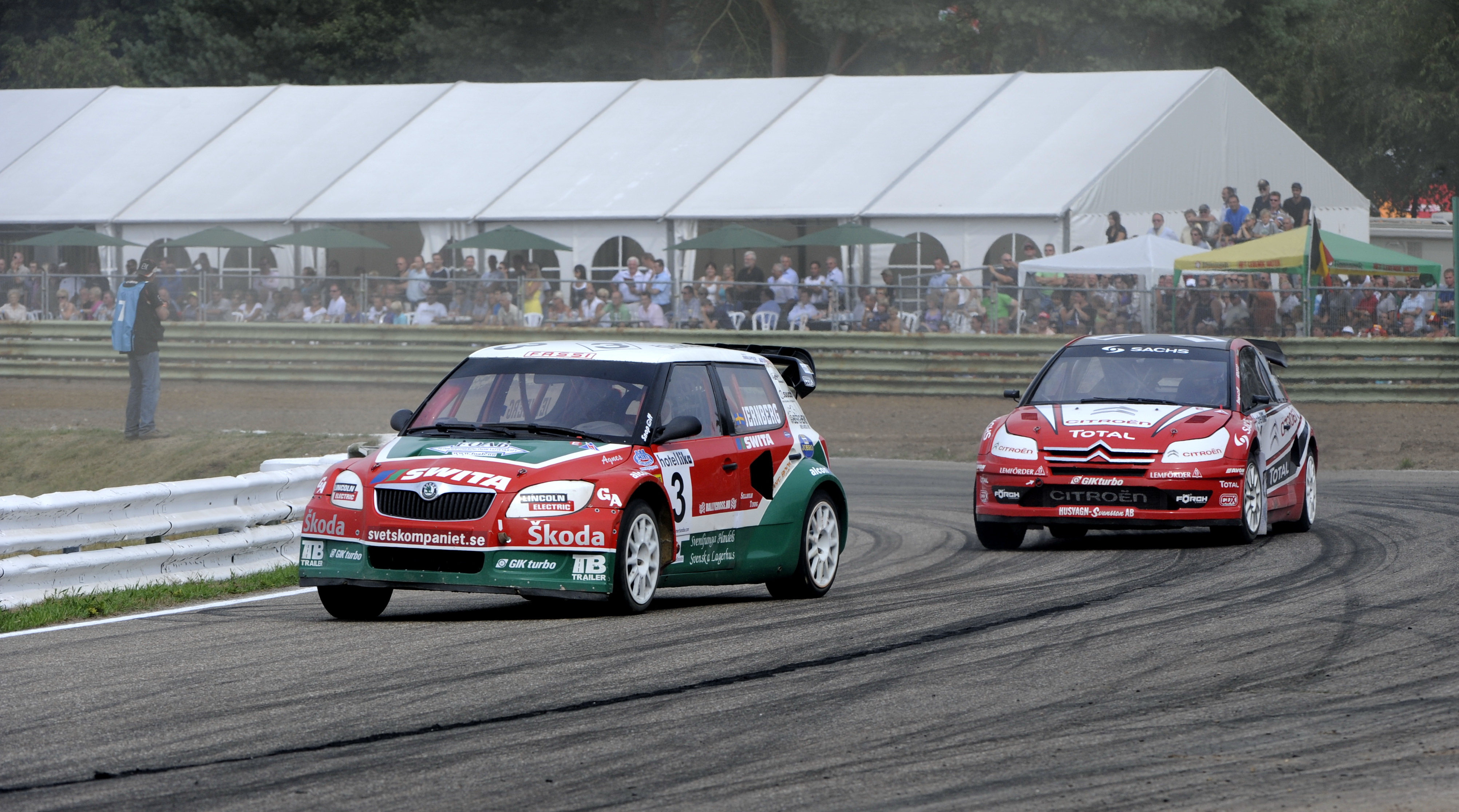 Michael Jernberg leads Kenneth Hansen at Round 7 of the 2009 European Rallycross Championship at Duivelsbergcircuit, Belgium.